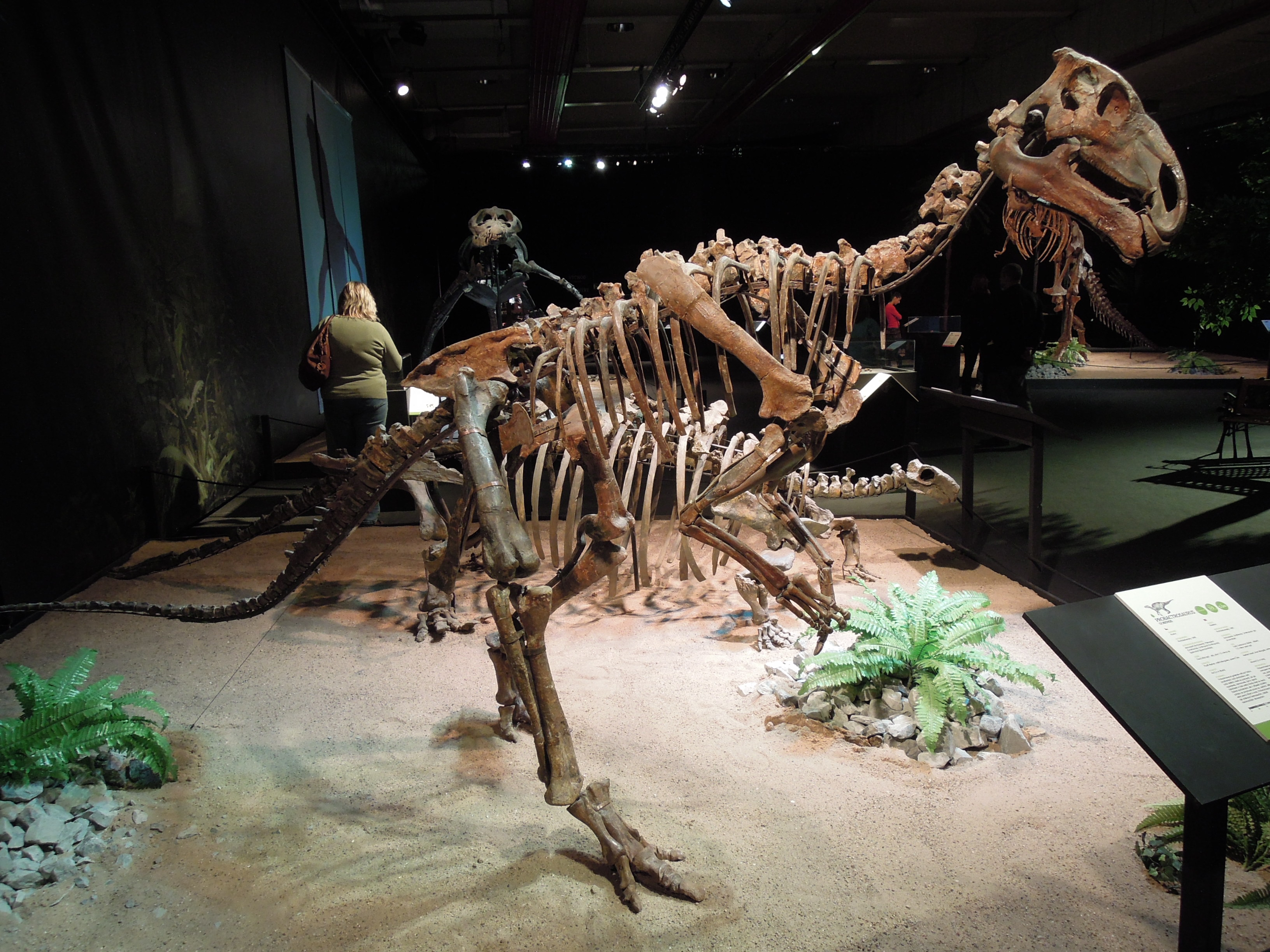 Probactrosaurus gobiensis, Dinosaurium exhibition, Prague, Czech Republic